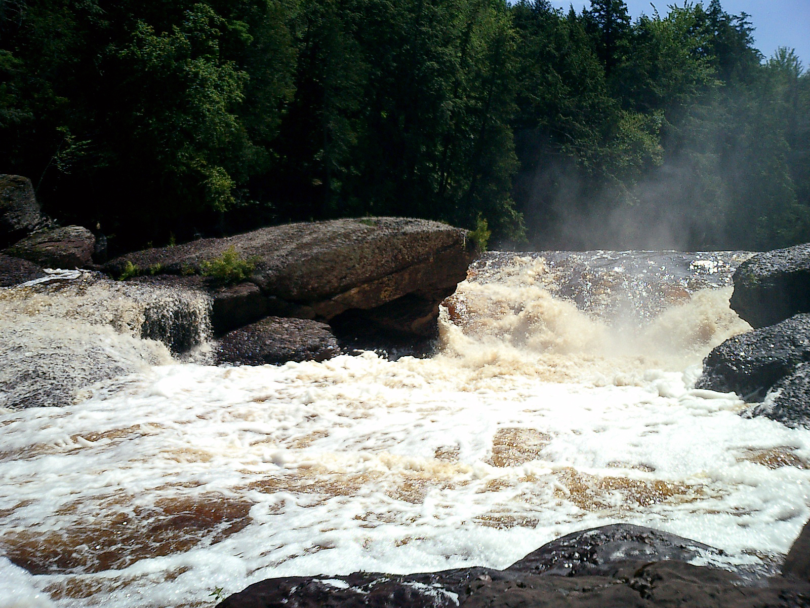 Sandstone Falls on northern Michigan's Black River